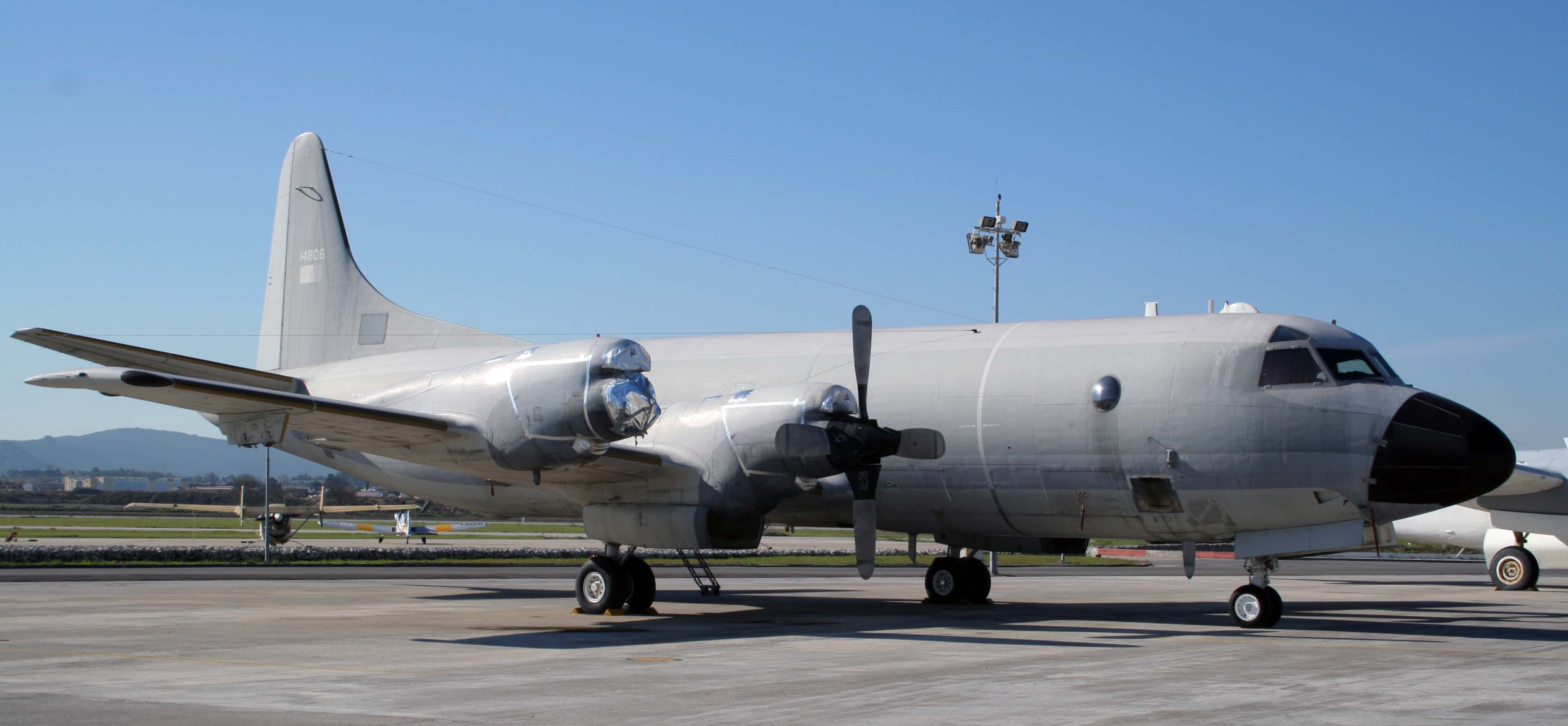 A Portuguese Air Force Lockheed P-3C Orion on 30 November 2005.